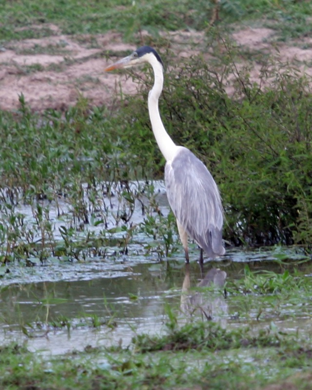 Cocoi Heron Ardea cocoi Ibera Marshes 1st. April 2006 Alt. names: White-necked Heron Distribution